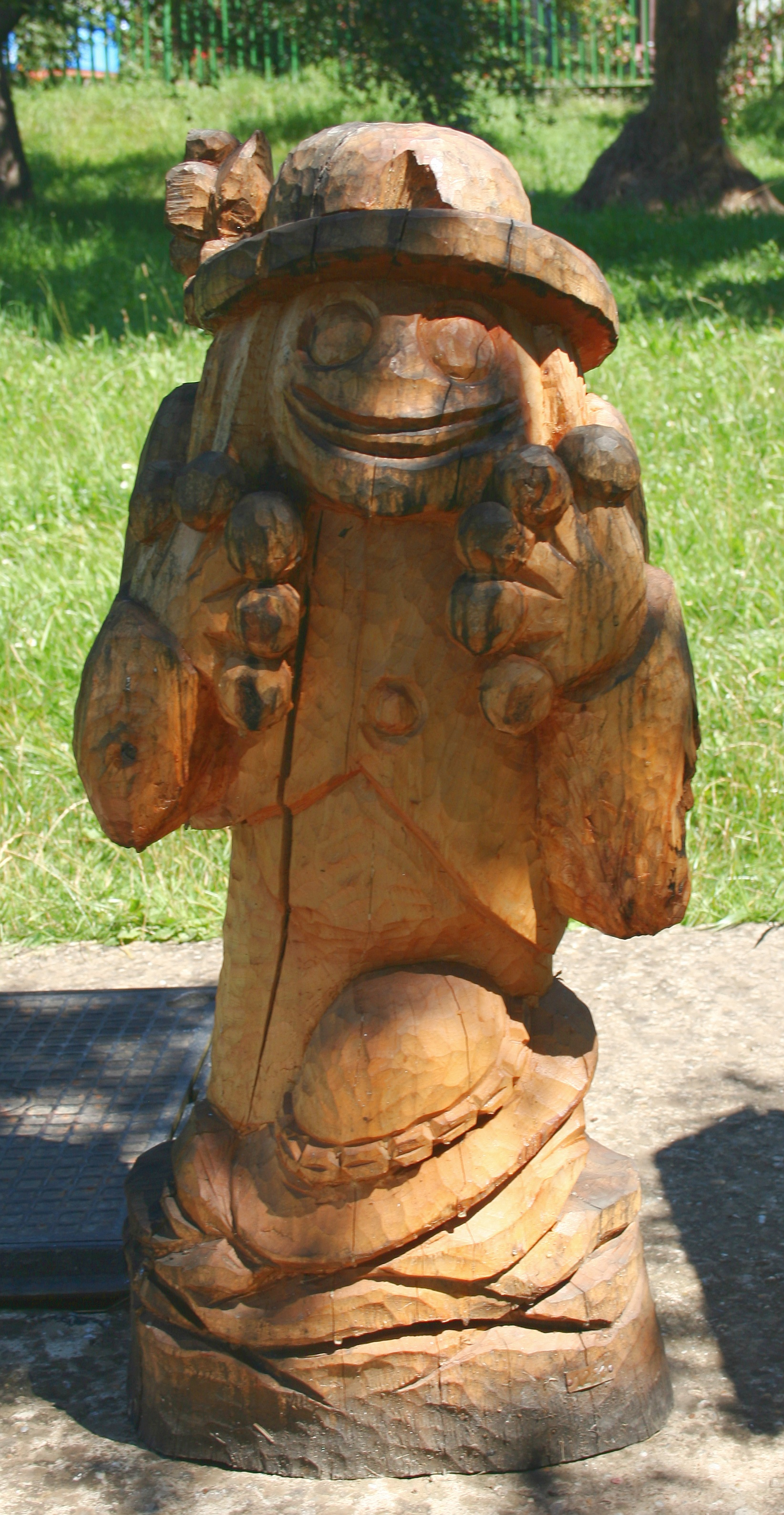 Vodyanoy in Open air museum in Humenné, Slovakia